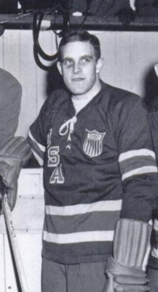 Arnie Oss, 1952